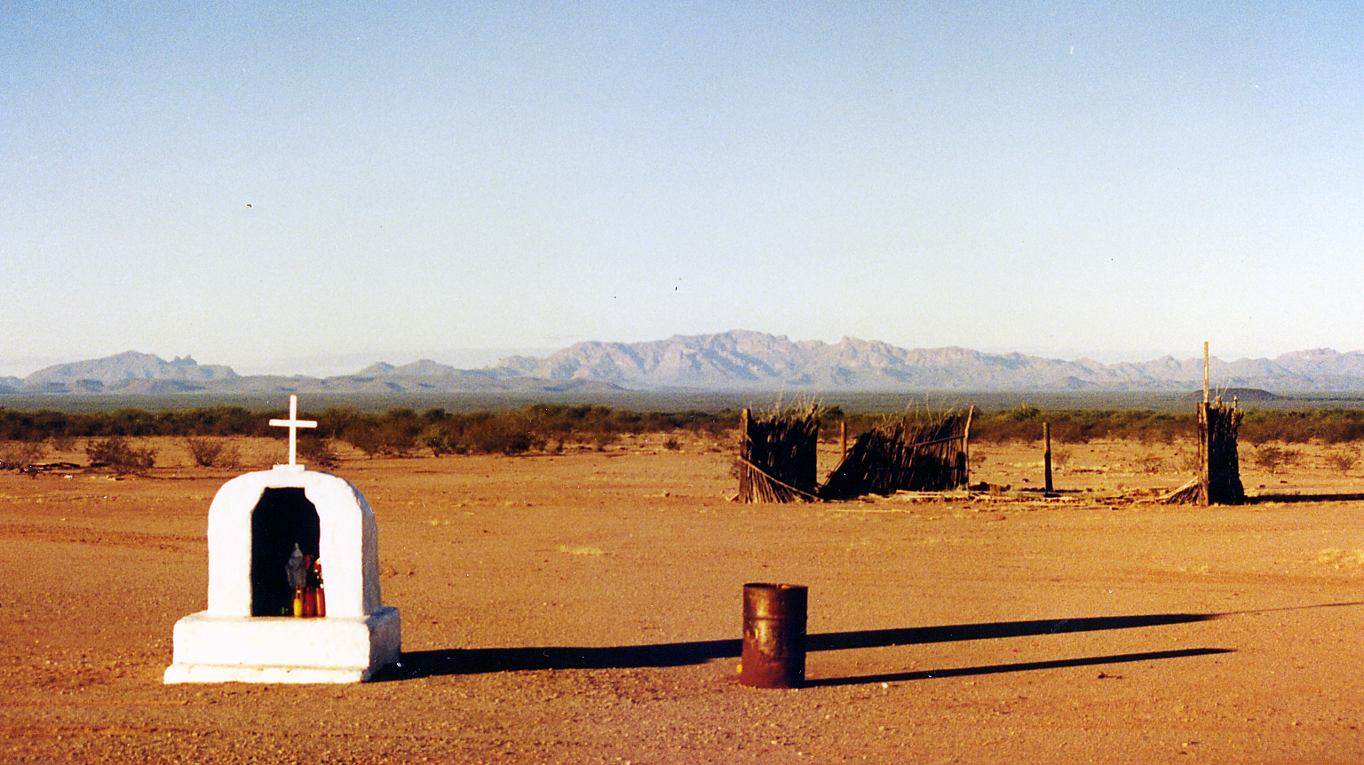 Shrine at Covered Wells, AZ -- 1990